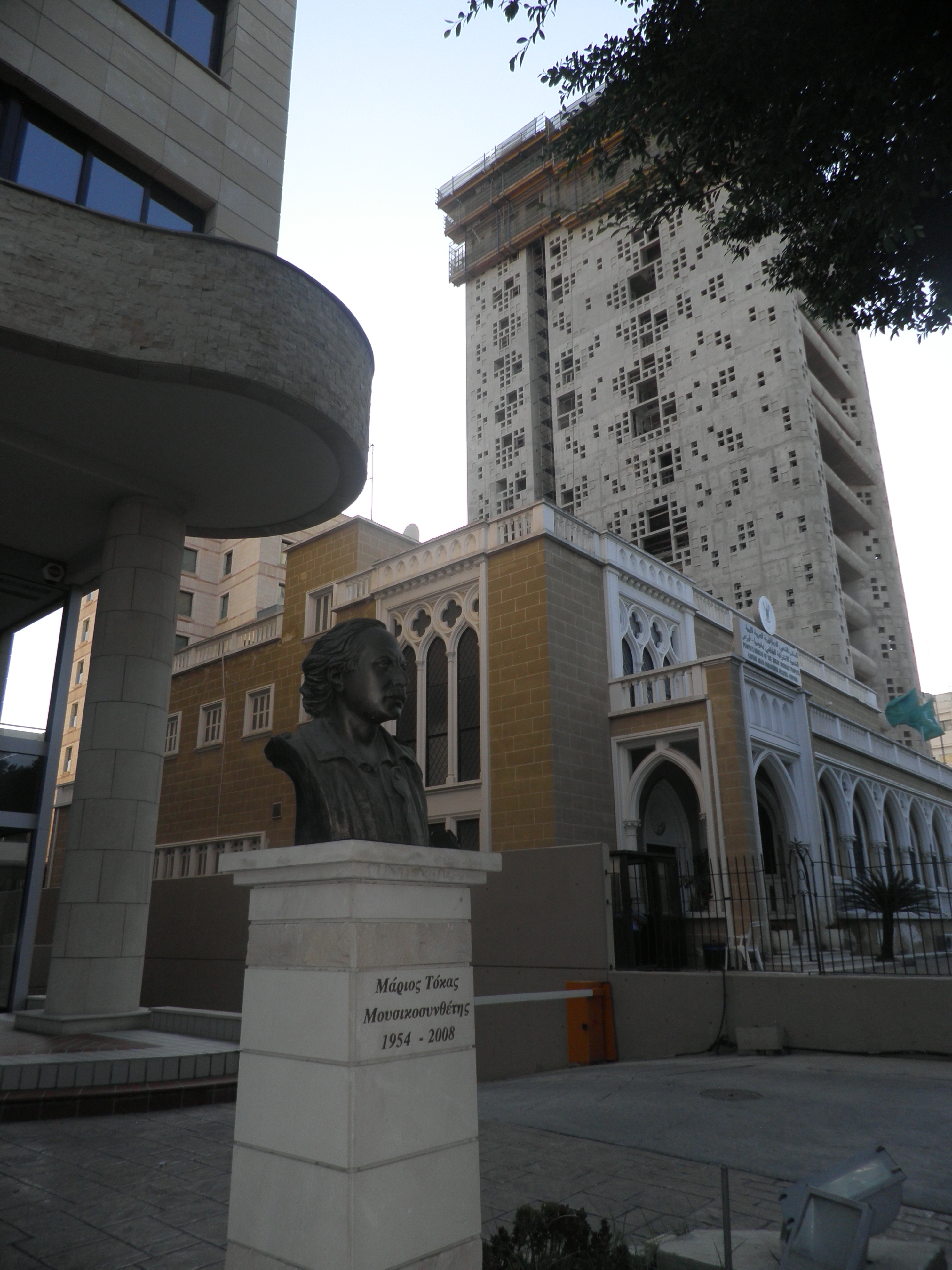 Marios Tokas Bust, Nicosia, August 2011